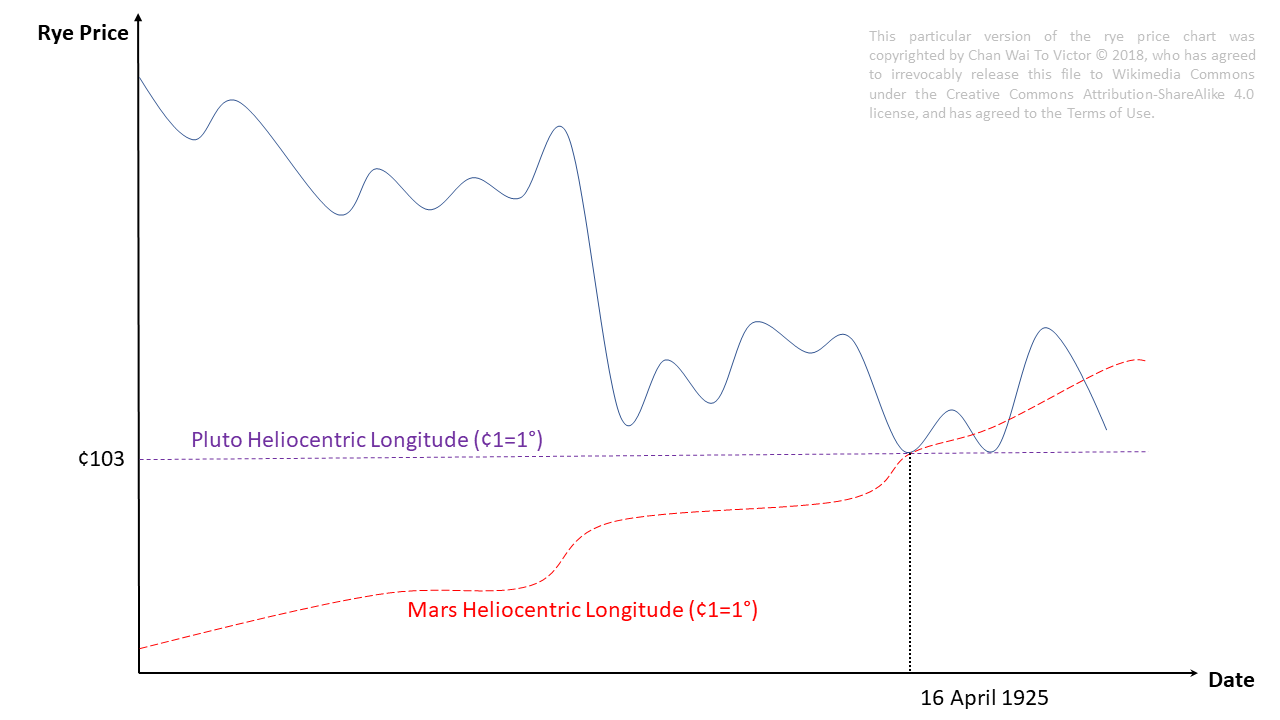 This chart is inspired by an example in W. D. Gann’s Mechanical Method and Trend Indicator (1946), in which Gann drew attention to the price level (¢103) on 16 April 1925, and 103° is also where the heliocentric Mars and Pluto were on that day. This particular version of the rye price chart was copyrighted by Chan Wai To Victor © 2018, who has agreed to irrevocably release this file to Wikimedia Commons under the Creative Commons Attribution-ShareAlike 4.0 license, and has agreed to the Terms of Use.